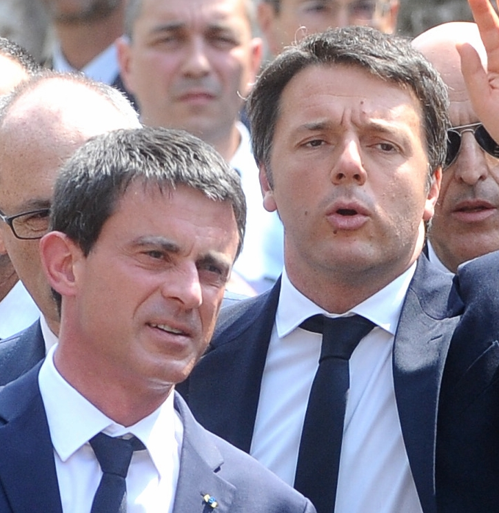 Manuel Valls and Matteo Renzi at the Festival of Economics in Trento